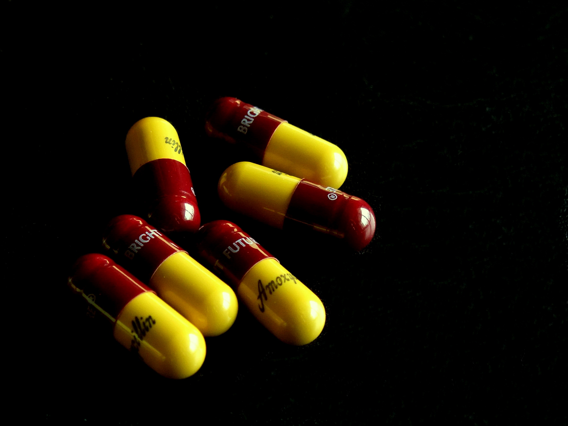 Amoxicillin 250mg capsule manufactured by Bright Future Pharmaceutical Laboratories Limited.